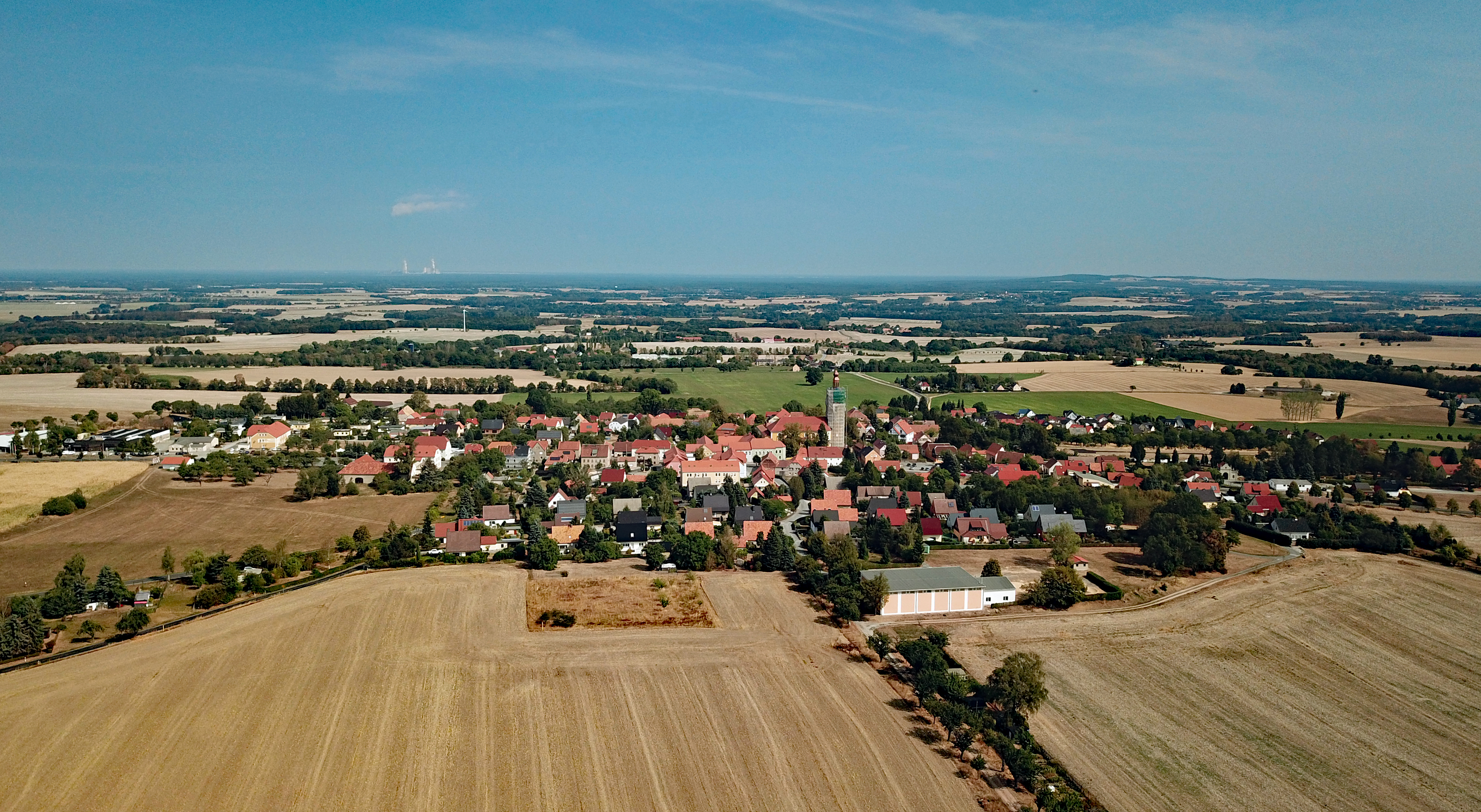 Hochkirch (Saxony, Germany) Hornjoserbsce: Powětrowy wobraz Bukec